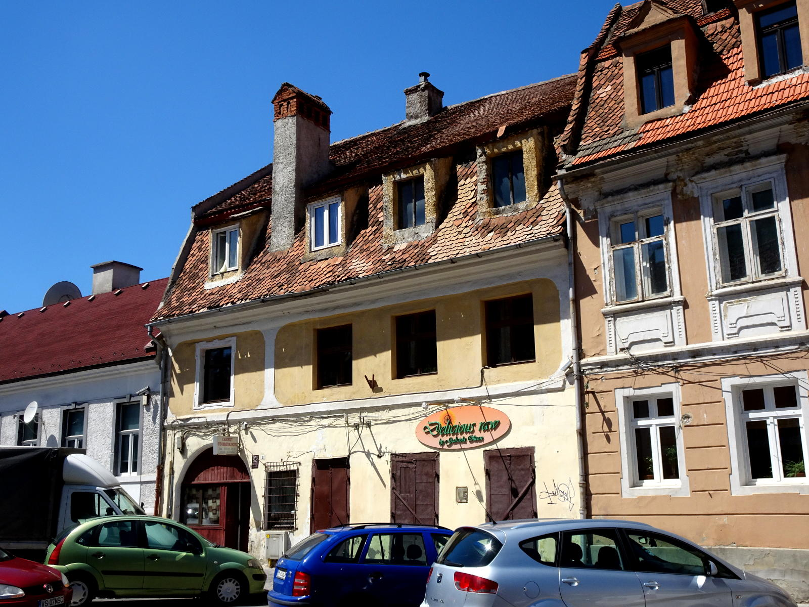 House in Bălcescu street, Brașov